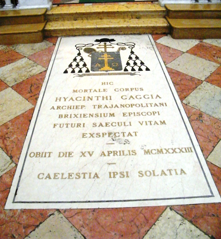 Giacinto Gaggia. Grave in Duomo Nuovo, Brescia.